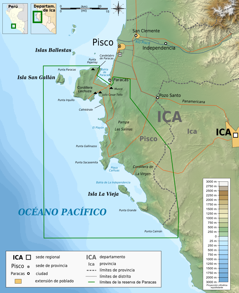 Topographic map in Spanish of the Paracas National Reservation